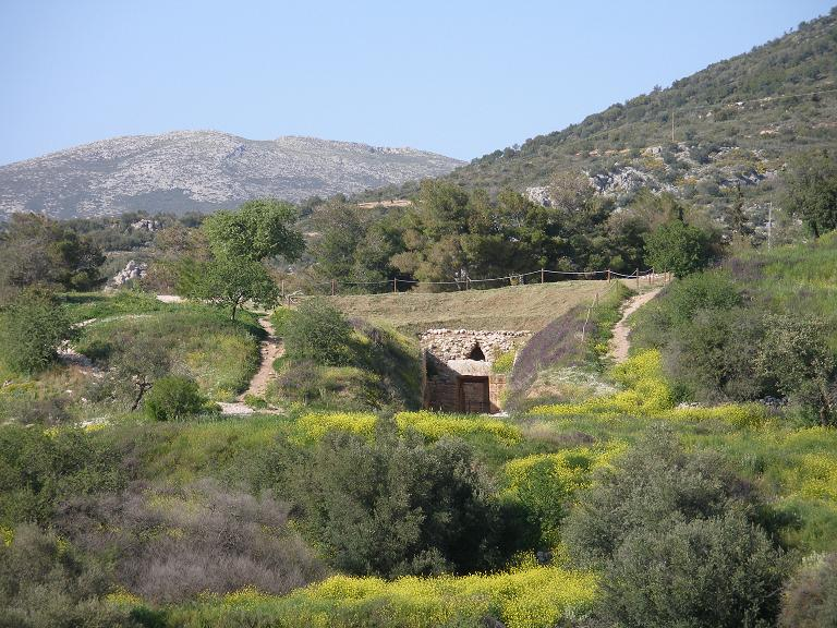 The reconstructed facade of the "Tomb of Aegisthus" from my visit there in early 2006.